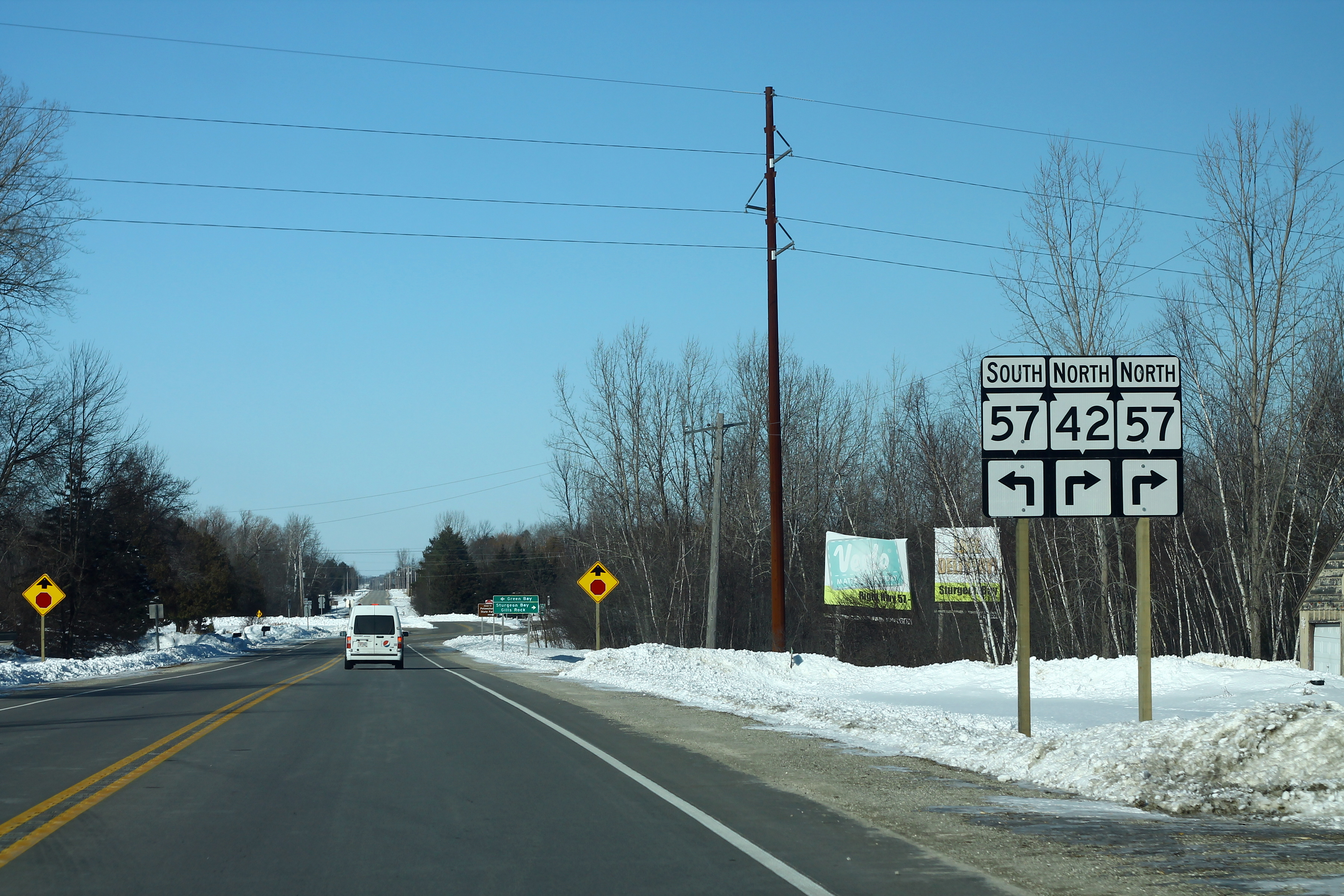 Junction of Wisconsin Highways 42 and 57 in the town of Nasewaupee. The sign shows the turnoff to the combined 42-57 route to the right through Sturgeon Bay. To the left, Wisconsin 57 goes south to Green Bay. A small development occurs past this sign and although it is not named today, it was once termed "South Wye" — with "North Wye" being north of Sturgeon Bay where the 42-57 route splits into separate 42 and 57 routes.